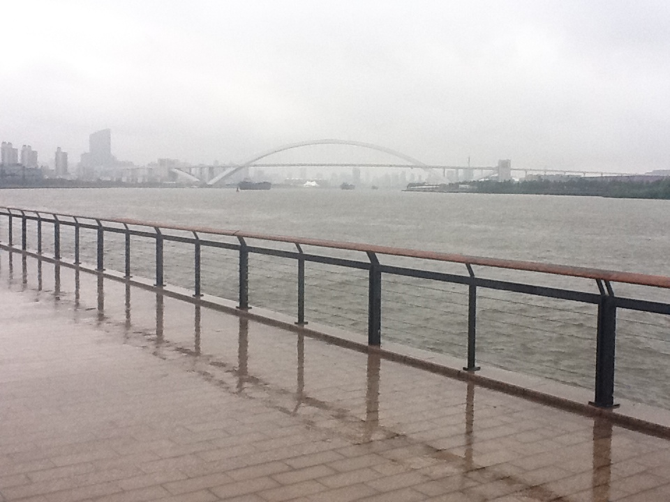 View of Lupu Bridge from Shanghai Corniche at the end of Dong'an Road